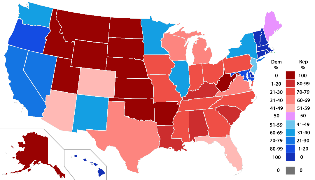 Based on File:113th US Congress House.png by Nevermore27